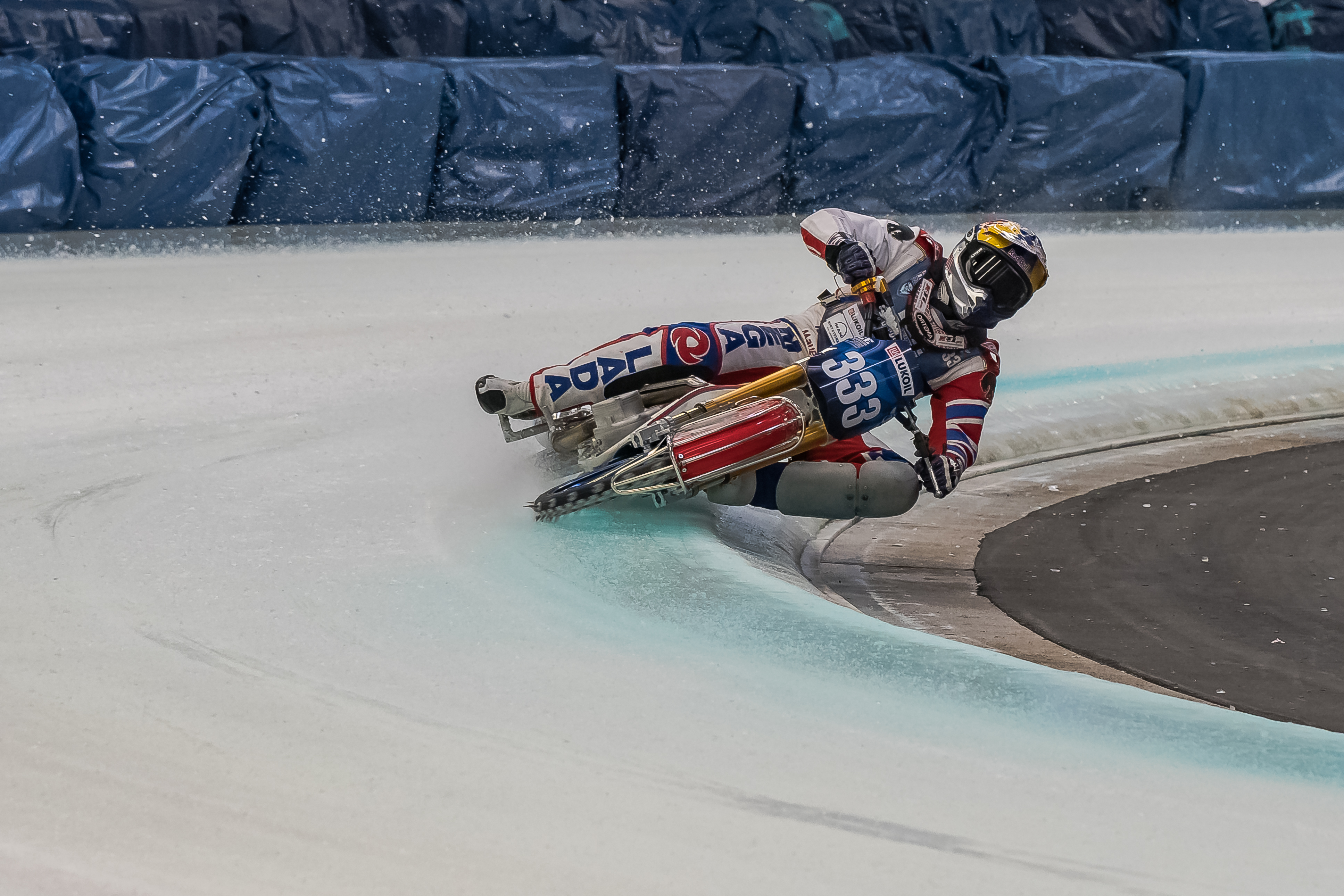 2018 FIM Ice Speedway Gladiators World Championship Final 4 - Inzell, Germany; Practice on March 16, 2018; Daniil IVANOV